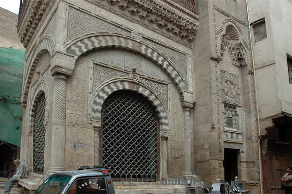 Sabil-kuttab of Abd al-Rahman Katkhuda. Cairo. Egypt